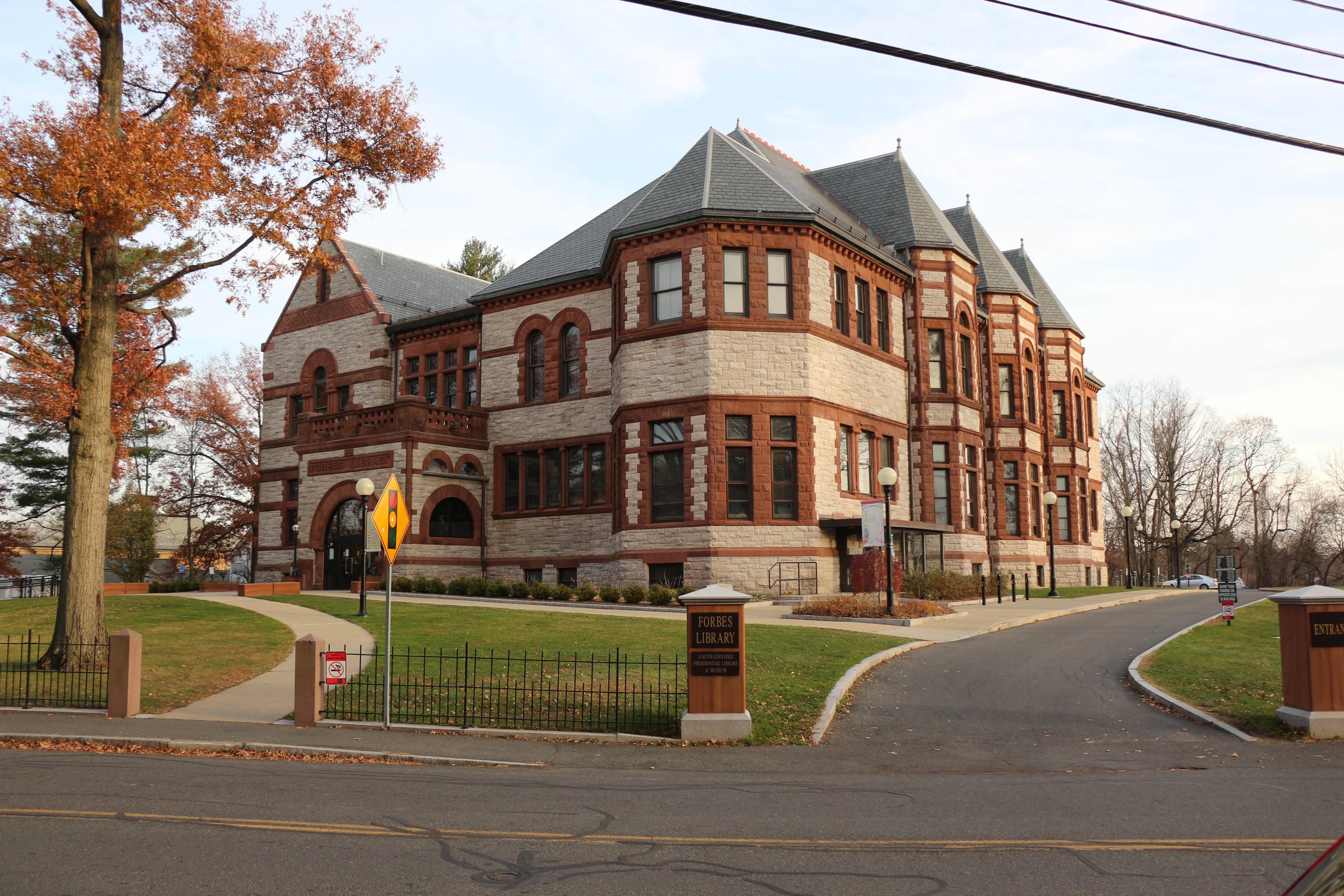 Forbes Library, home of the Calvin Coolidge Presidential Library and Museum, in November, 2014.